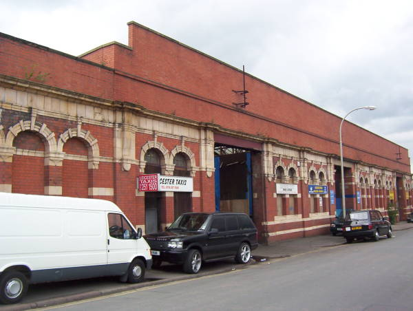 Own Photo (C)Jcasingena 2006